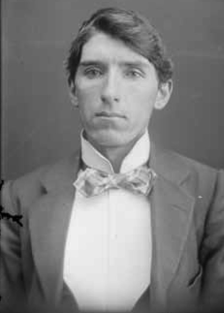 A mugshot of James Francis Dwyer, taken in Sydney in 1899.